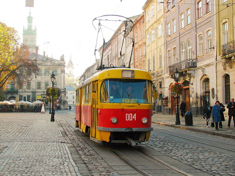 Tatra T4 in Lviv.